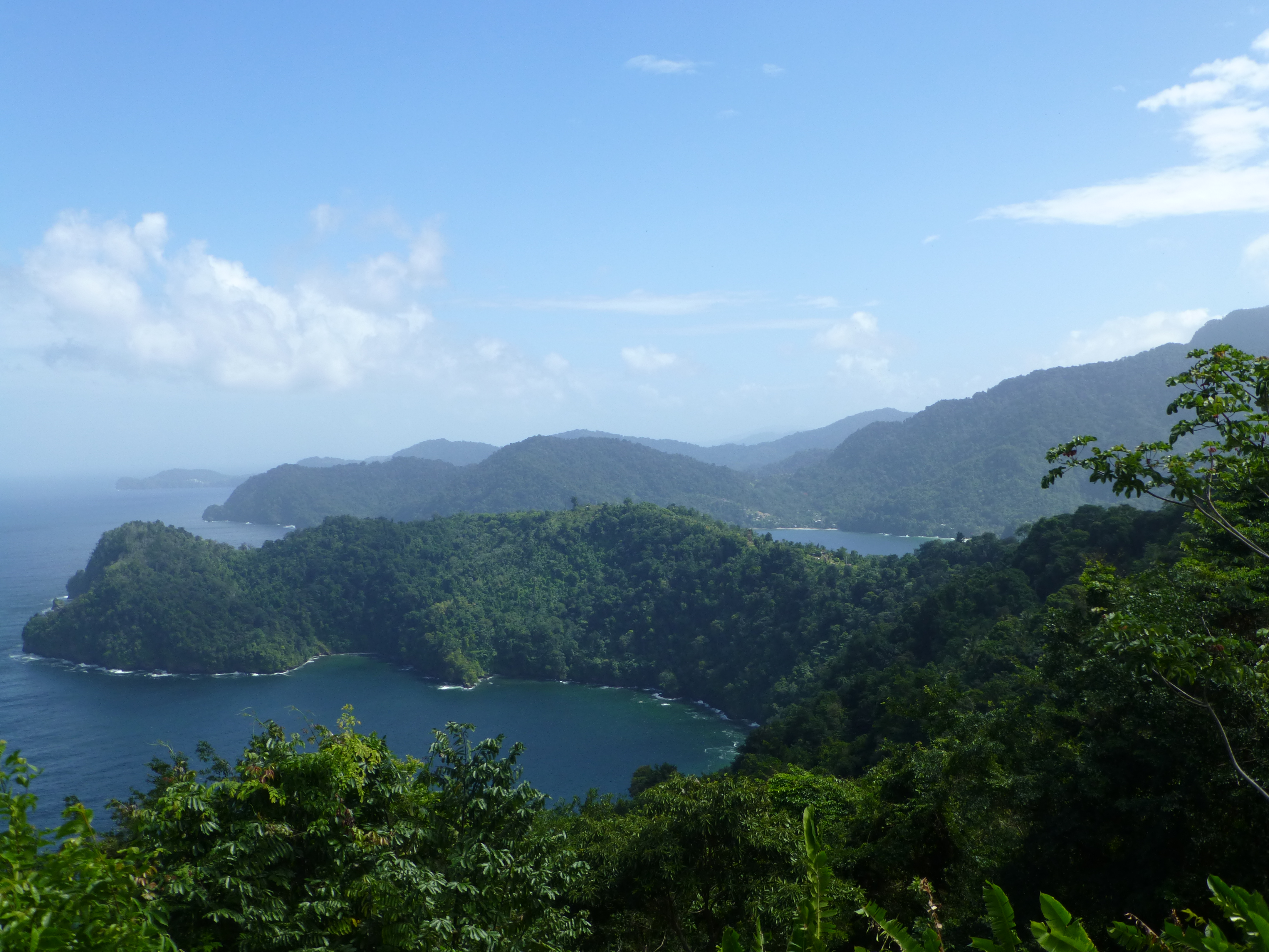 Maracas Bay, Trinidad, as seen from Maracas lookout.